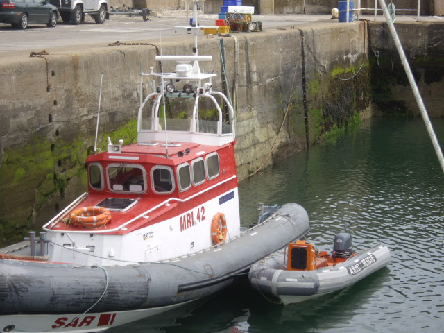 A Search & Rescue (SAR) vessel In the Outer Harbour, Stonehaven.